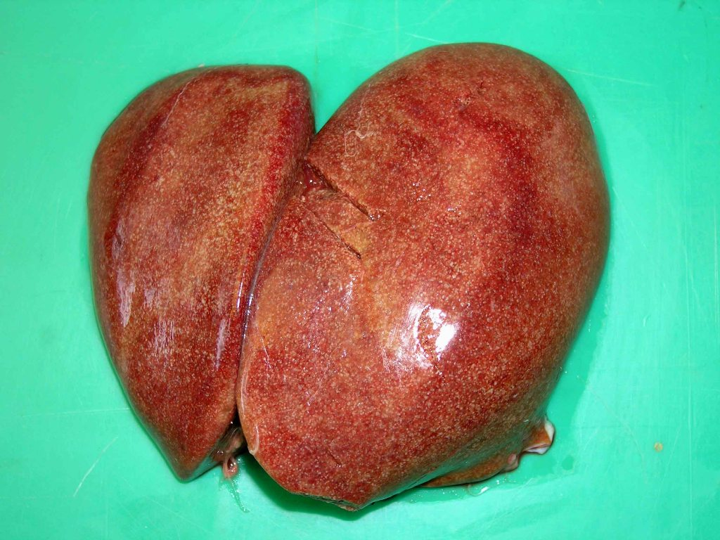 avian tuberculosis (spleen of vulture)